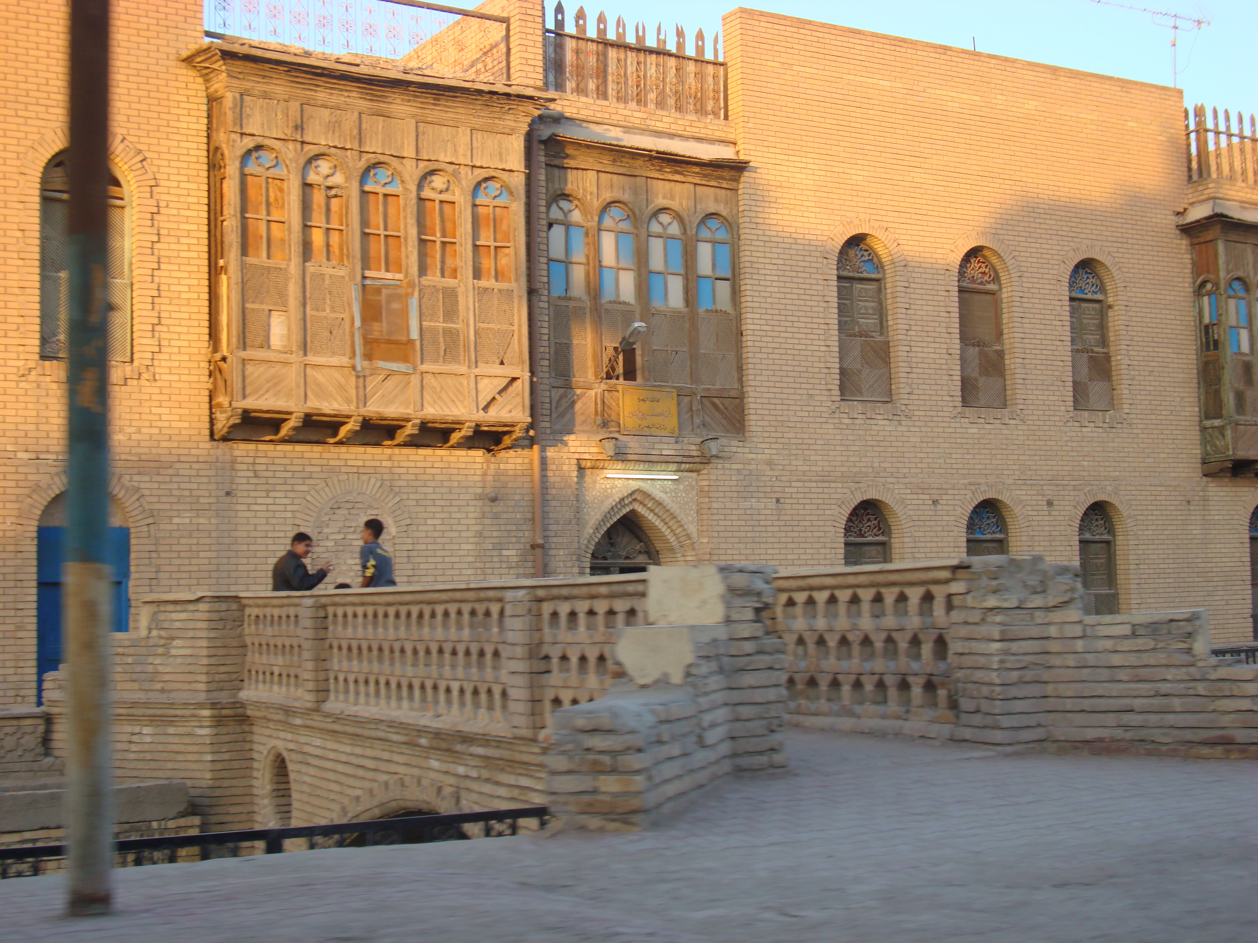 old basrah